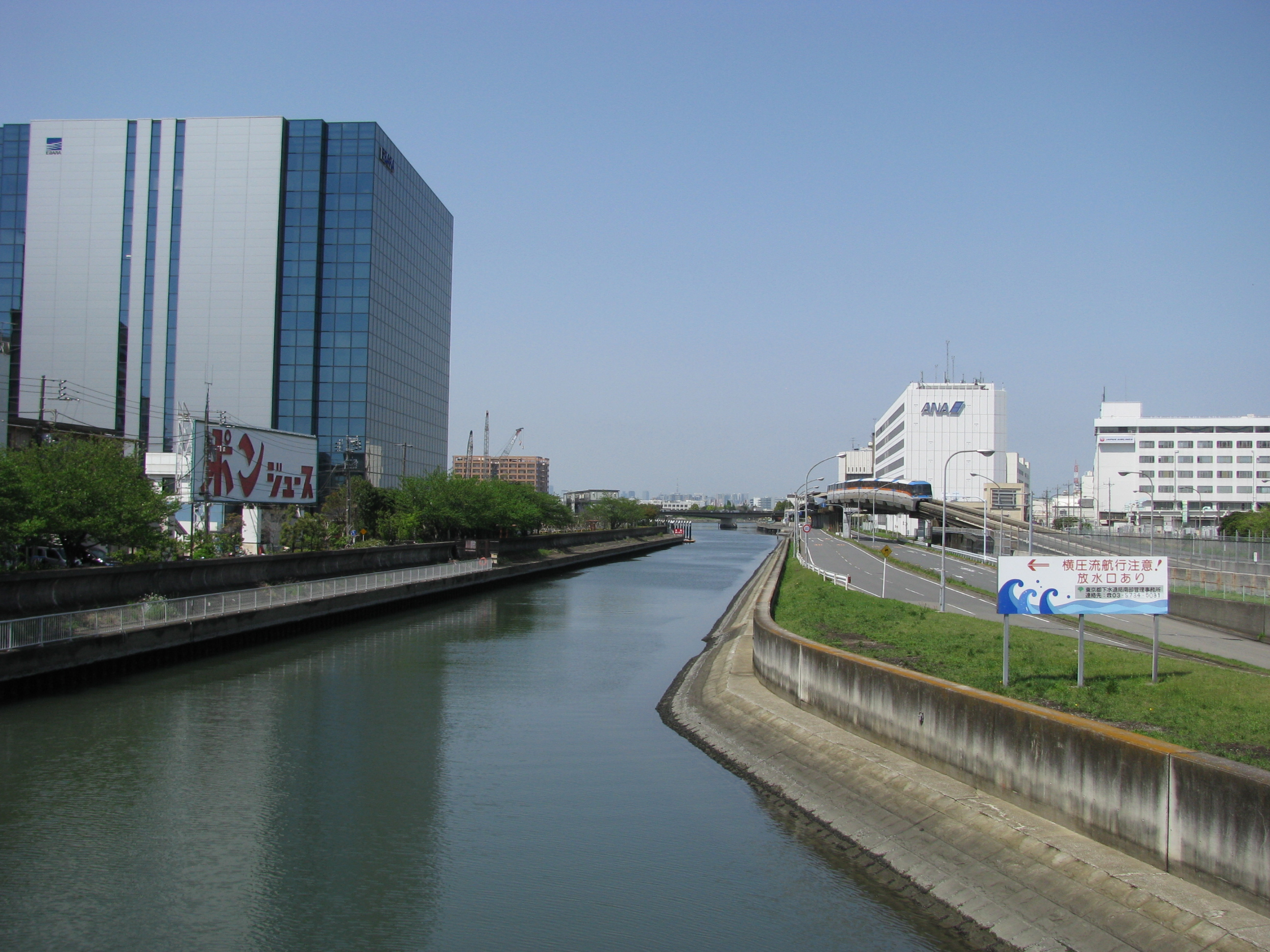 Ebitori River in Ōta, Tokyo, Japan.